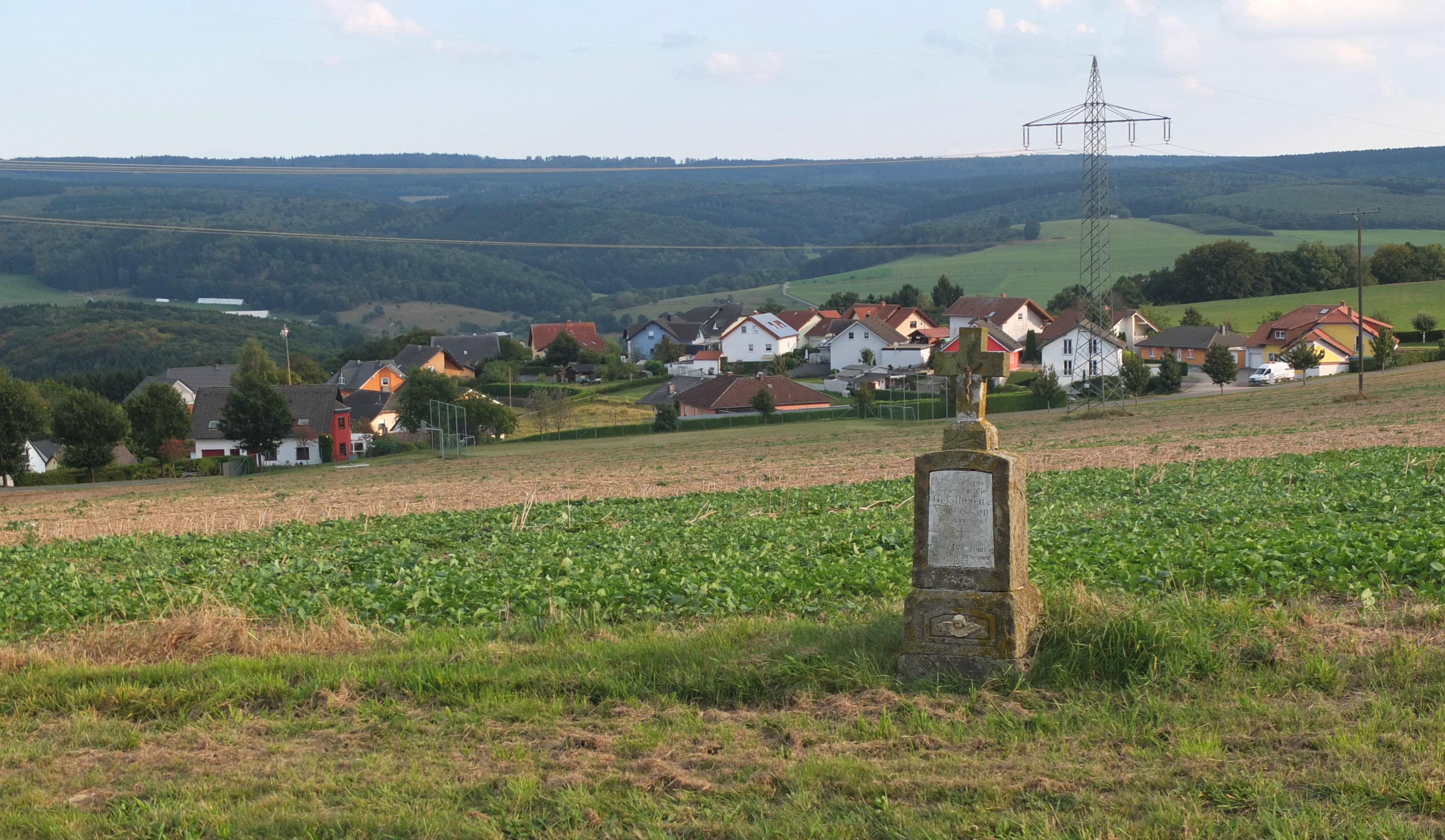 Wayside cross (1947) commemorating the victims of war, near Baldringen, Germany, the village in the background (view NW).